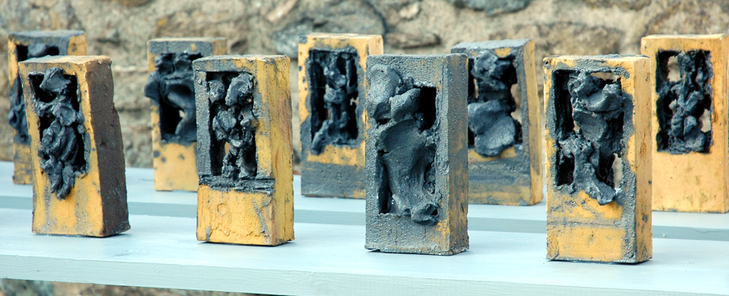 Sculptures by Jan Koblasa, Baroccoco - Windows, burnt clay with engobe (1994)